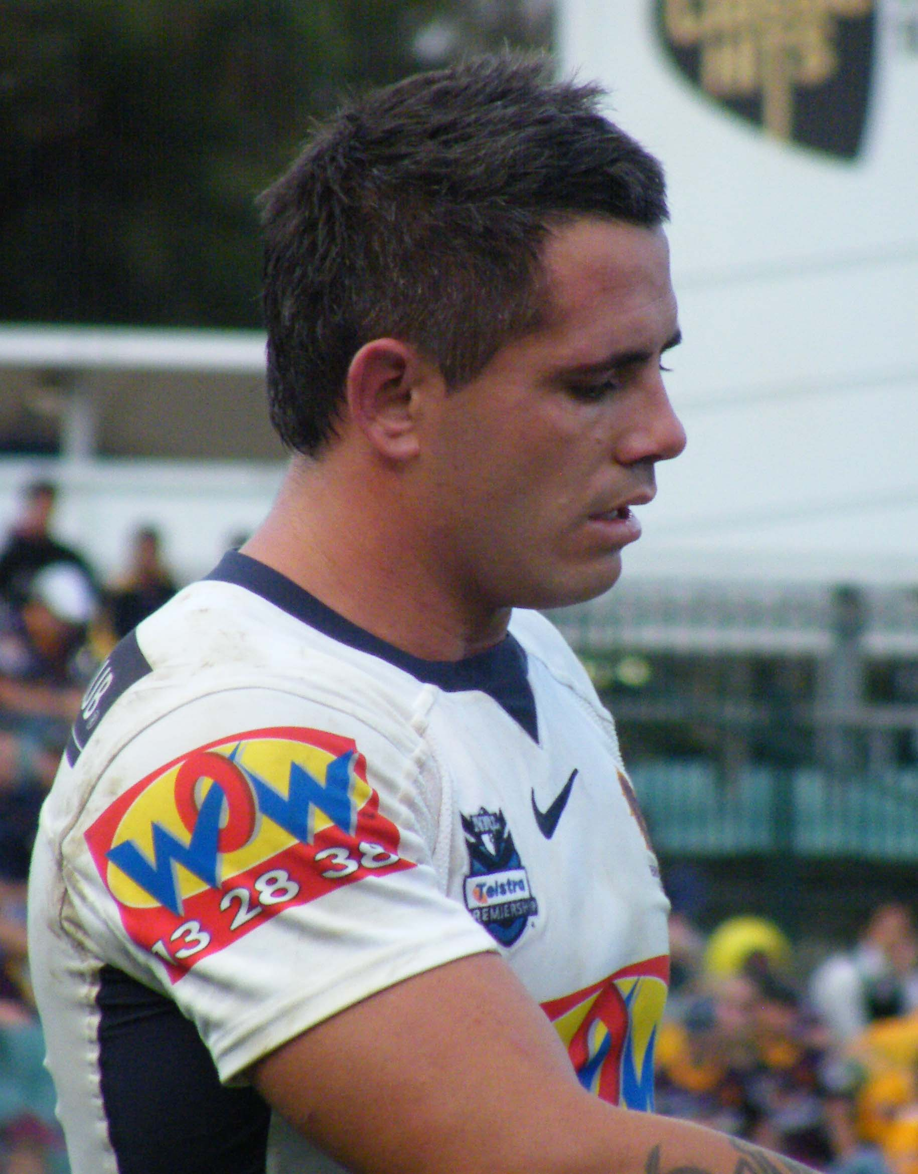 Corey Parker of the Brisbane Bronco's RLFC